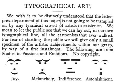 Emoticons printed in 1881 in the U.S. magazine Puck.